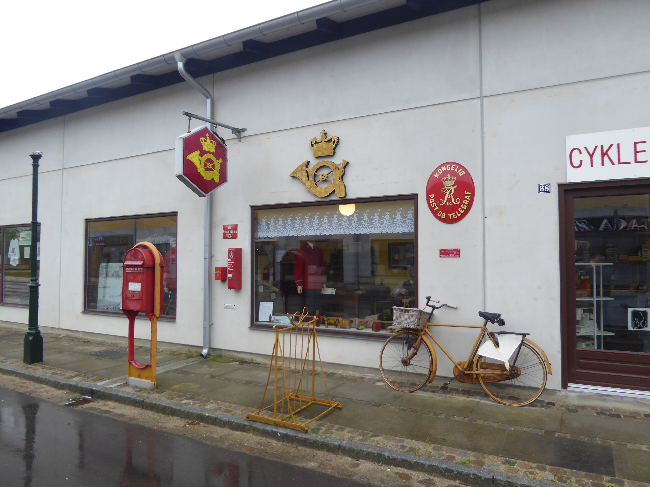 Reconstruction of a Danish post office in Bushallen at Sporvejsmuseet Skjoldenæsholm in Denmark.